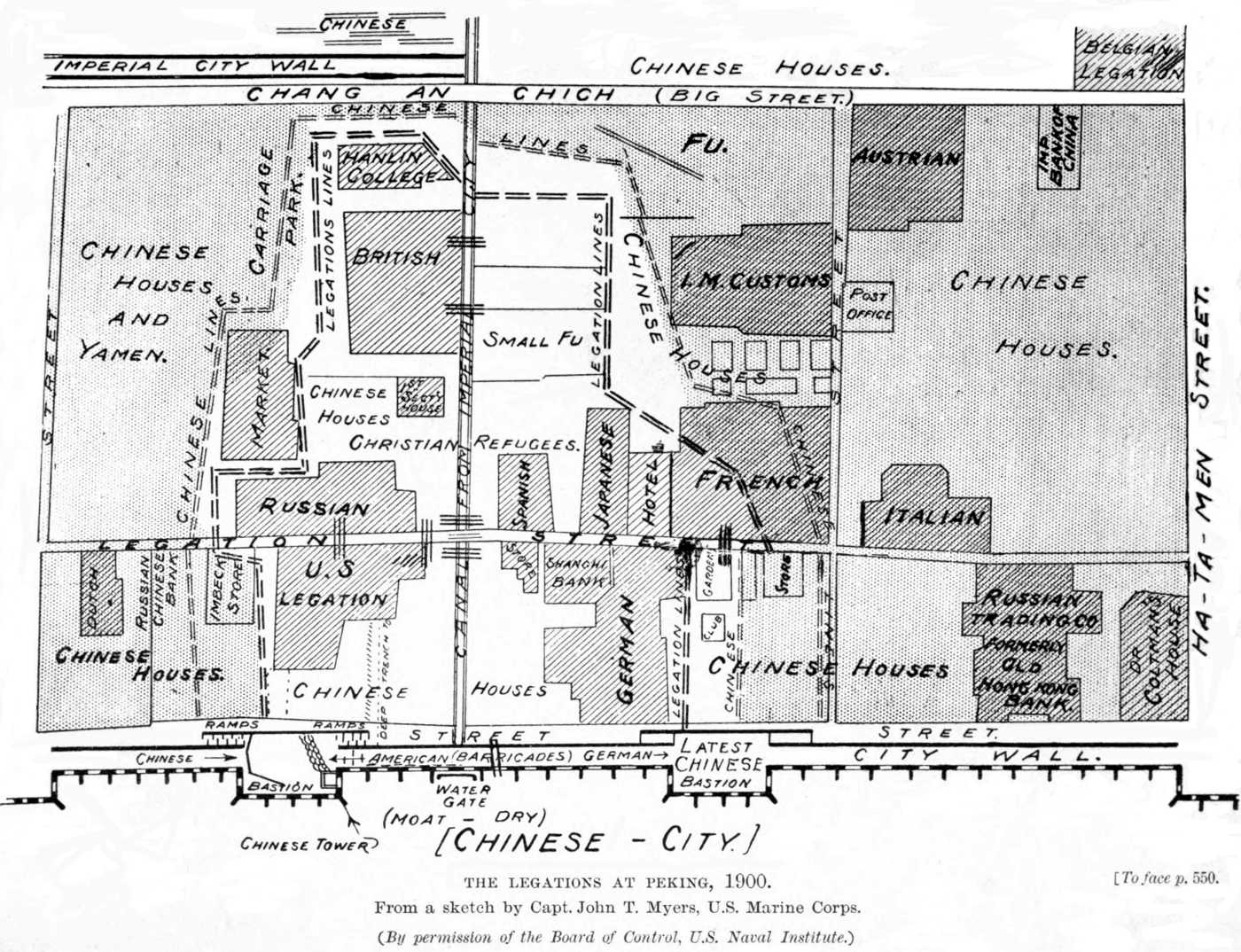 Diagram showing locations of foreign diplomatic legations in Peking during the Boxer siege, 1900.